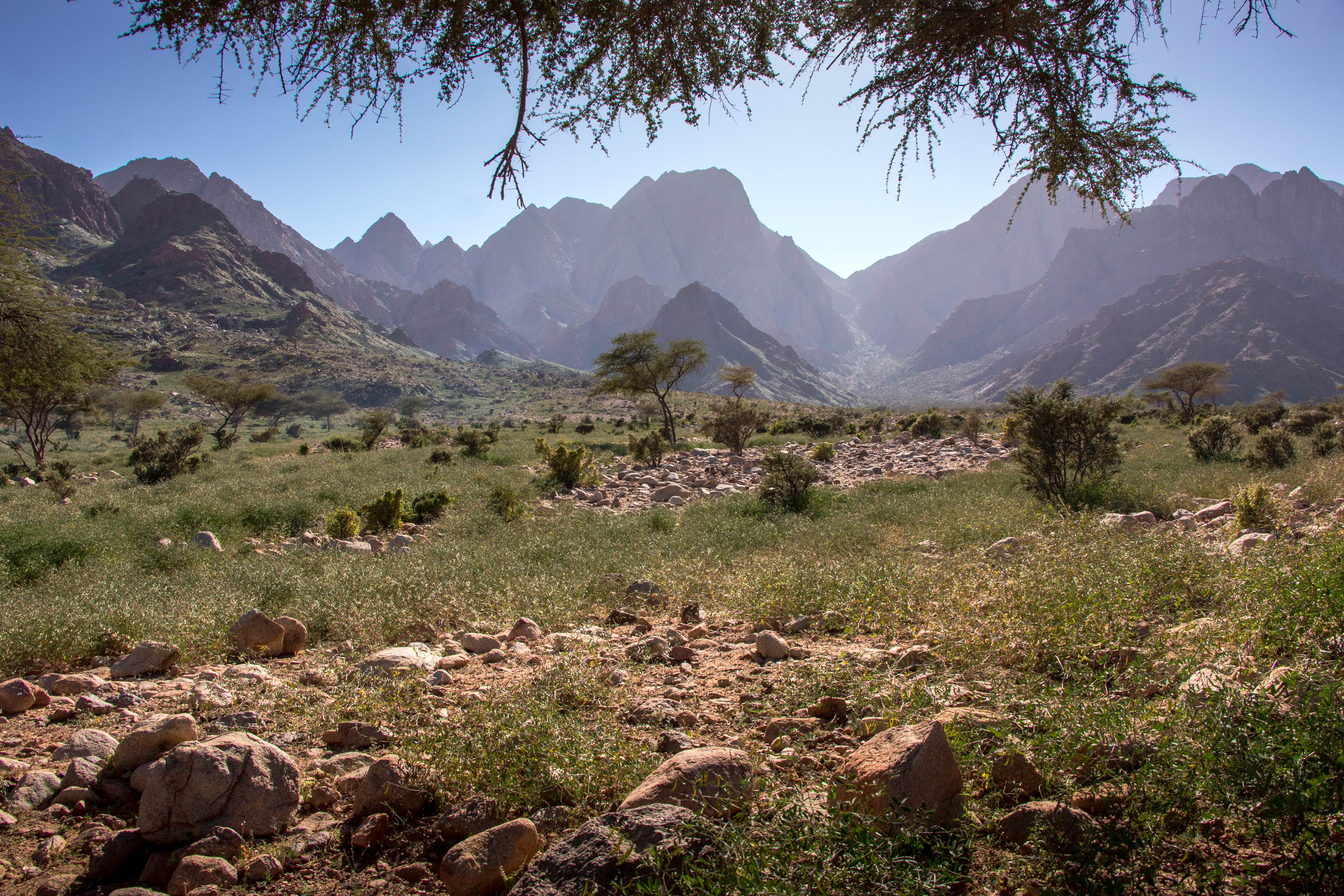 This is an image with the theme "Africa on the Move or Transport" from: Egypt